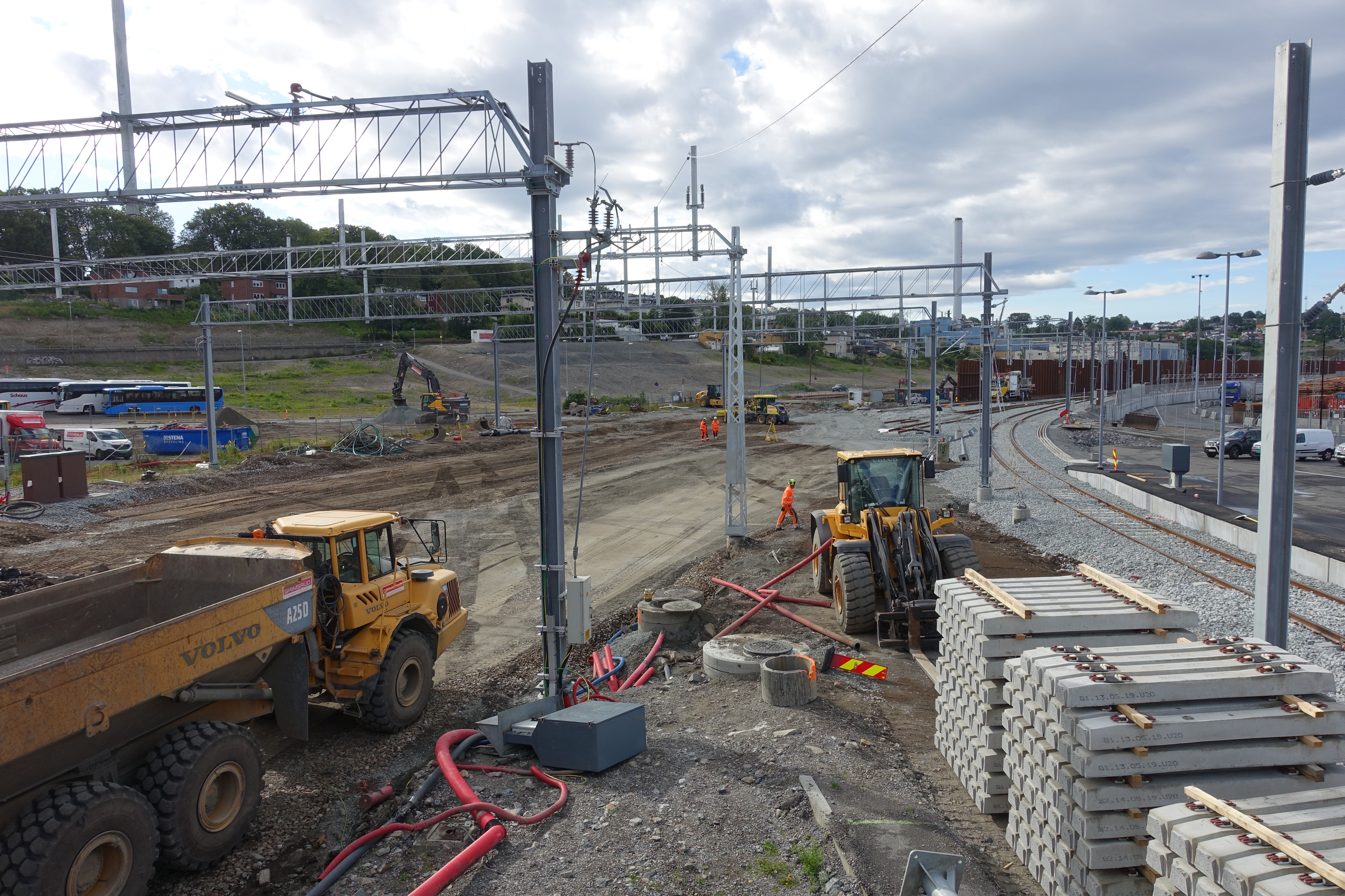 Moss railway station, tracks being moved, due to construction of new station and new tunnel. A temporary line is constructed west of the old tracks, so there is space for building a new railway station and for the new tunnels, north and south of the new station.